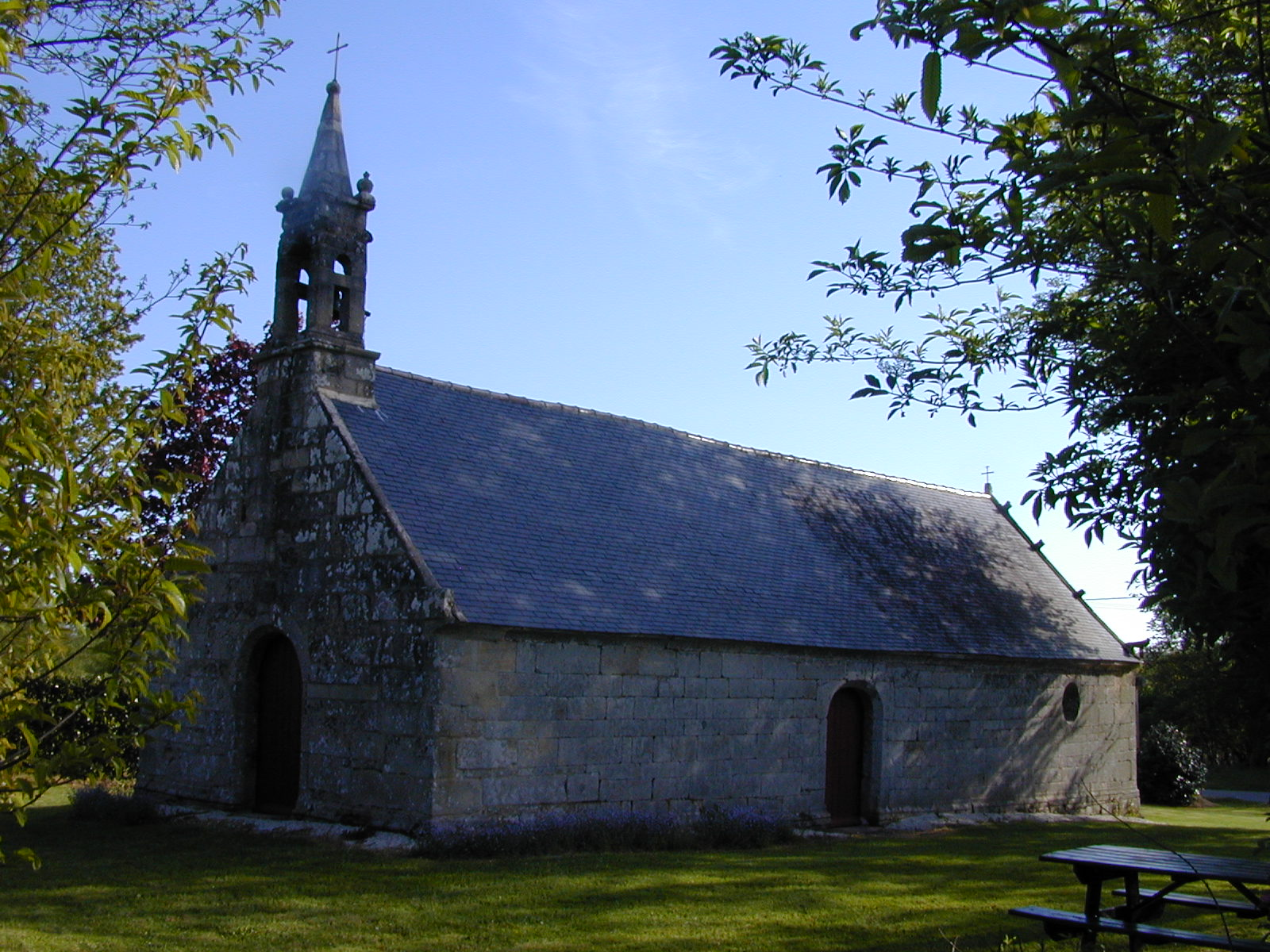 Saint Georges's chapel